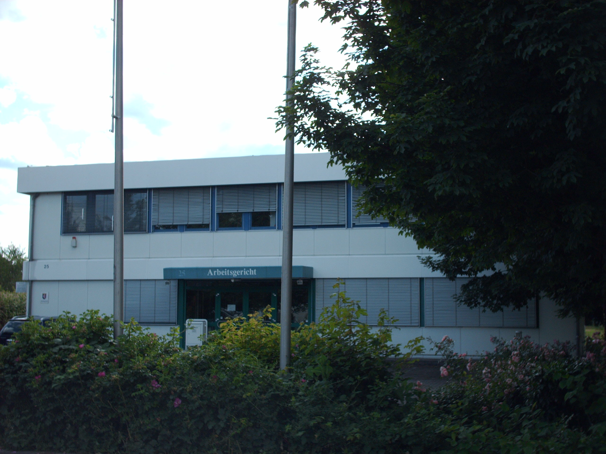 Courthouse Arbeitsgericht Gießen, Gießen, Germany check usage